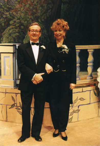 Photo of Leonard Langmead (Honorary Life-Time member) and Marian Siminski (Musical Director)